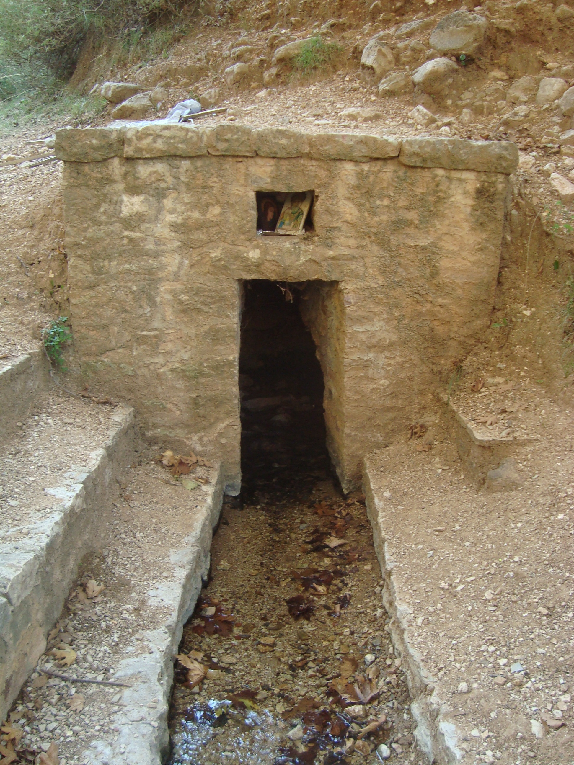 Panagitsa river, Achaia Greece